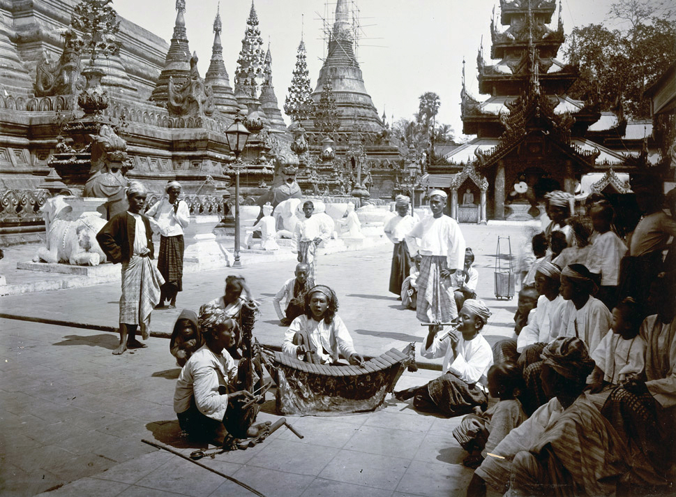 Burmese musicians at the Shwe Dagon Pagoda [Rangoon] Photograph of musicians at the Shwe Dagon Pagoda in Rangoon (Yangon), Burma (Myanmar), taken by Philip Adolphe Klier in the 1890s. Burma has a vast classical music repertoire known as the Maha Gita, or Great Song, and a rich tradition of ensemble musical performance. The musicians in this view are performing on the platform of the Shwe Dagon Pagoda, Burma’s most revered Buddhist shrine and site of pilgrimage. The base of the main stupa can be seen behind the musicians. In Burma the violin was traditionally played by blind musicians and is held upright rather than horizontally. The photograph is from an album devoted almost entirely to Lord Elgin's Burma tour of November to December 1898. Victor Alexander Bruce (1849-1917), ninth Earl of Elgin and 13th Earl of Kincardine, served as Viceroy of India between 1894 and 1899.